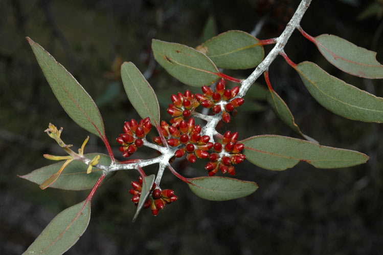 Flower buds of Eucalyptus desmondensis in the Mt Annan Botanic Gardens, New South Wales